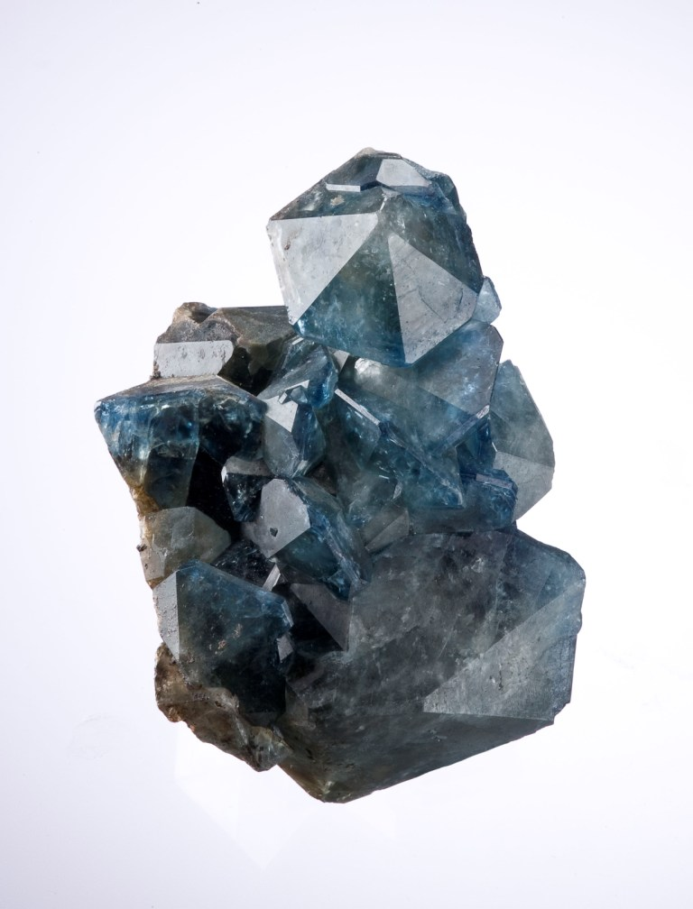 Fluorapatite (Apatite-(CaF)) Locality: São Geraldo do Baixio, Doce valley, Minas Gerais, Brazil Size: cabinet, 12.4 x 7 x 4.1 cm 7.6 x 5.5 x 5.2 cm. This specimen was featured in the exhibition "MINERAL DREAMS: Brazilian Gem Treasures" at the Munich show of 2010. It is one of the most bizarre apatite specimens I have come across, with carved-looking blue apatite crystals sitting one atop the other like stacked flying saucers. It is sharp, and the color and crystal forms are very impactful. The crystal atop is one inch across, and fairly translucent. I have not seen another specimen like this, to date, and was told it came out in about 2007.